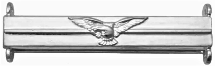 Second award bar for the British Air Force Cross. Also used for Distinguished Flying Cross, Distinguished Flying Medal, Air Force Cross